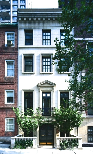 Exterior photograph of a townhouse in New York City's Upper East Side, representative of Peter Pennoyer Architects' work.